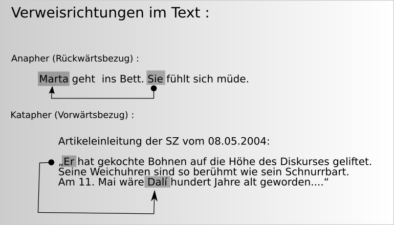 linguistics : directions of referential meanings in a sentence, clause etc..anapher, katapher